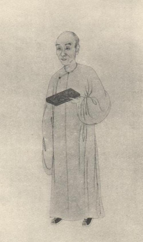 ZHANG Yanchang, scholar of the Qing Dynasty.